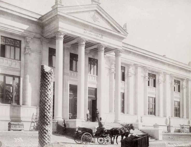 Ottoman Imperial Museum (Today: Istanbul Archaeology Museums)